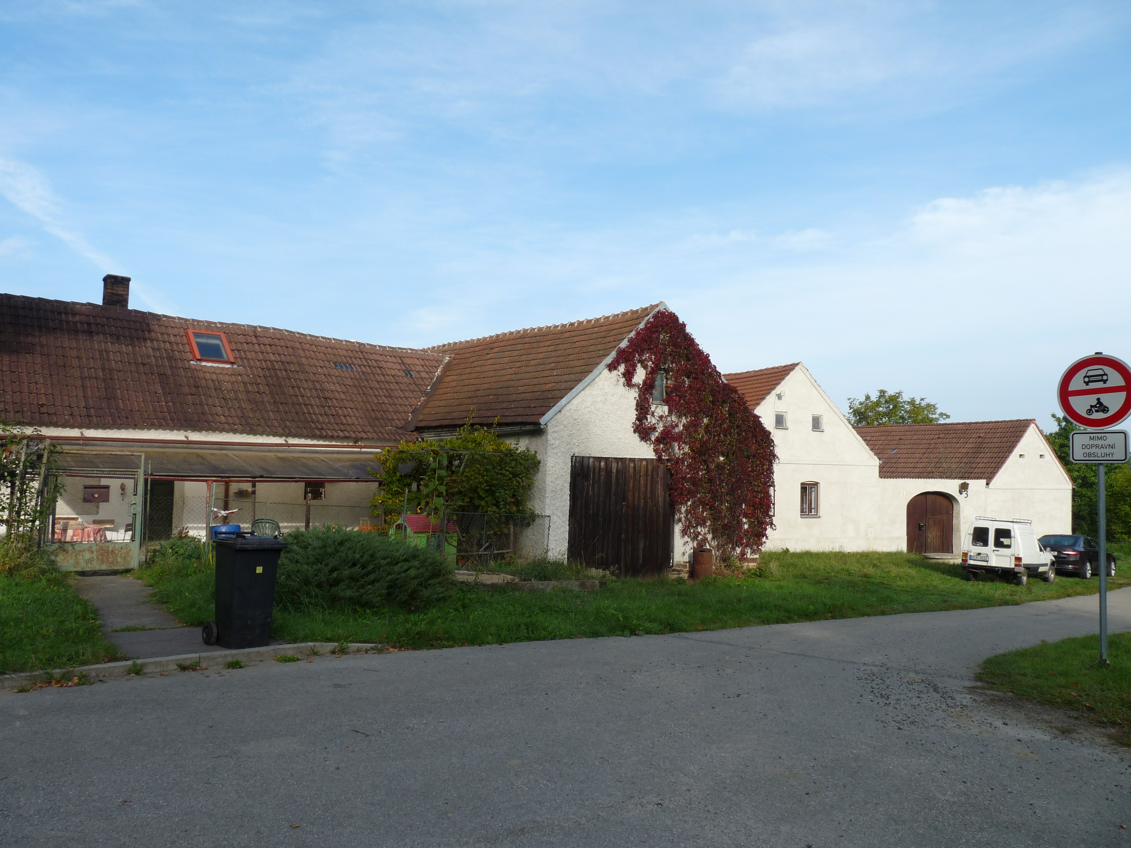 Houses No 4 & 3 in the village of Zvíkov, Český Krumlov District, South Bohemian Region, Czech Republic.